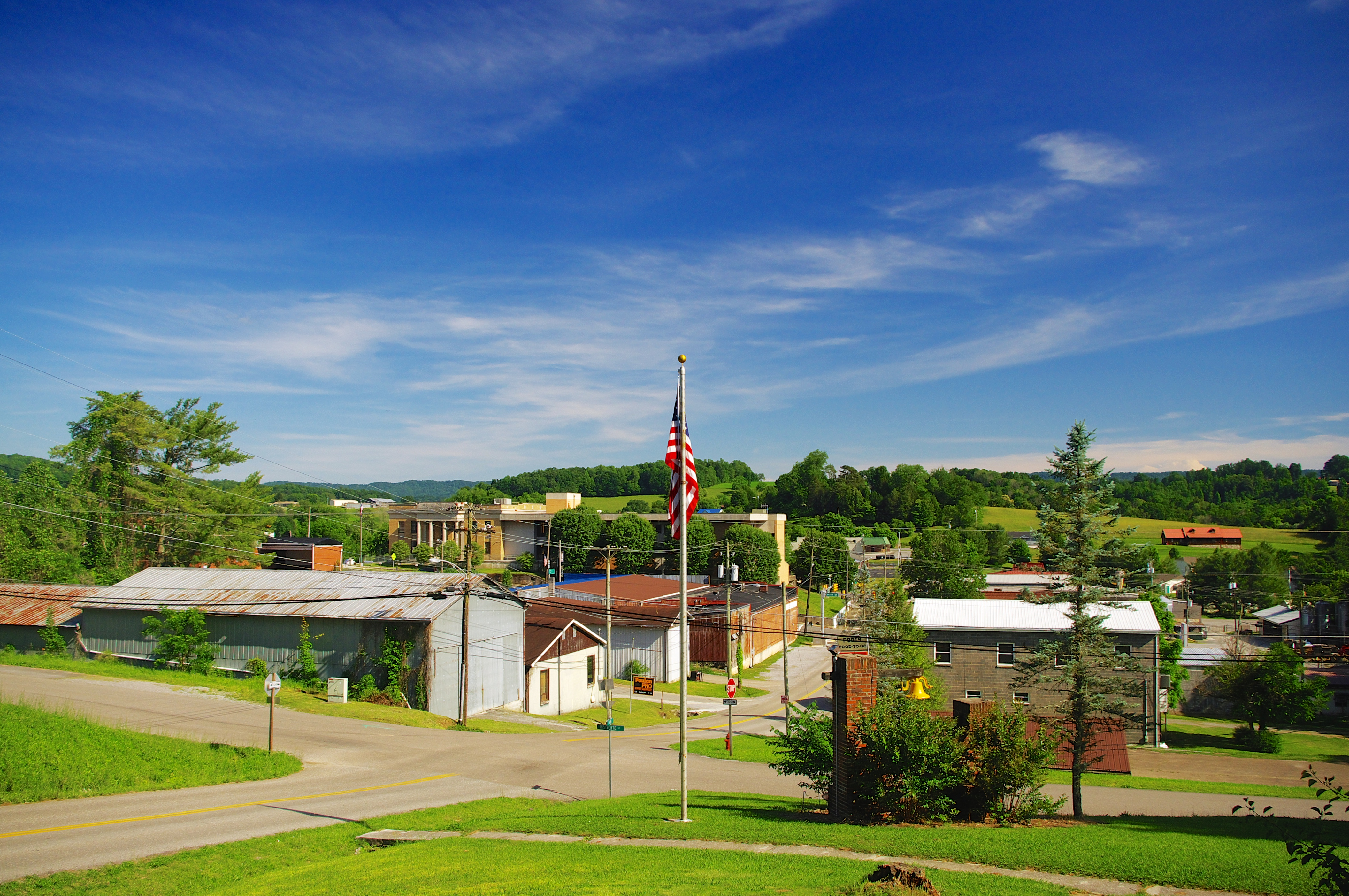 Jonesville, Virginia, United States, viewed from Park Street.